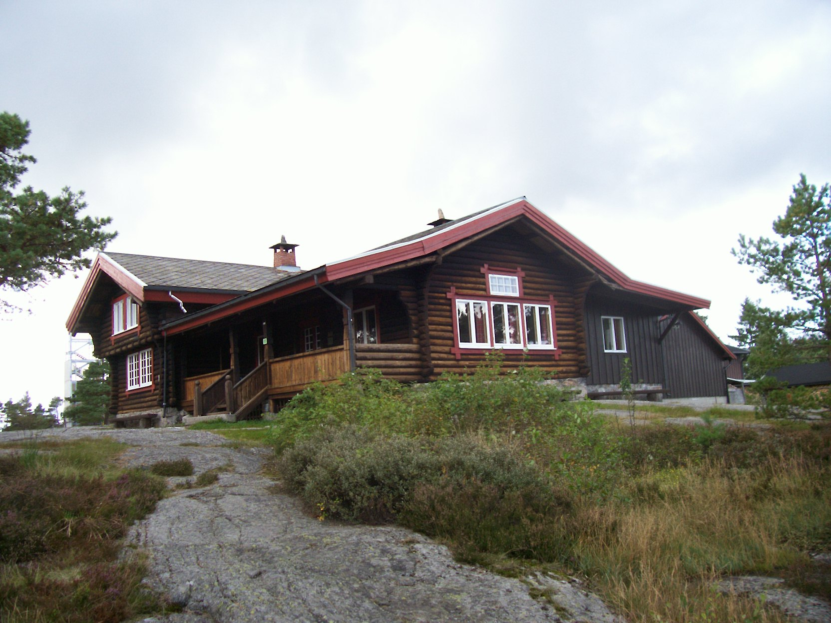 Ski cabin at Høyås/ Hoiaas near Halden as per September 2010